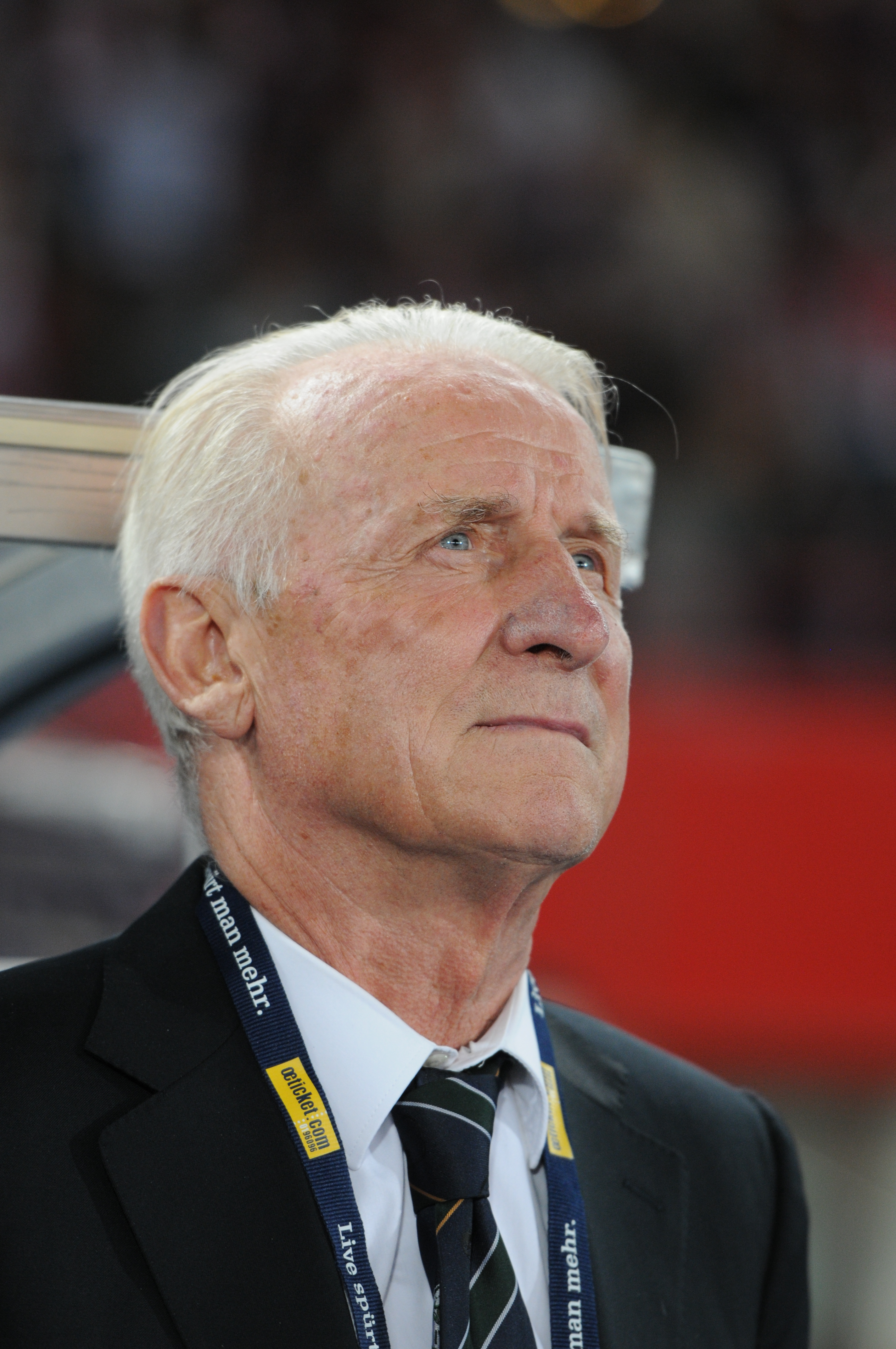 2014 FIFA World Cup qualification (UEFA), Group C: Republic of Ireland national football team at 10. September 2013 before the match against the Austria national football team (0:1) in the Ernst-Happel-Stadion in Vienna. Here: Giovanni Trapattoni, Irish head coach. The making of this work was supported by Wikimedia Austria. For other files made with the support of Wikimedia Austria, please see the category Supported by Wikimedia Österreich.